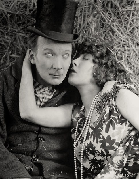 El Brendel and Yola d'Avril in Hot for Paris (1929) - publicity still.